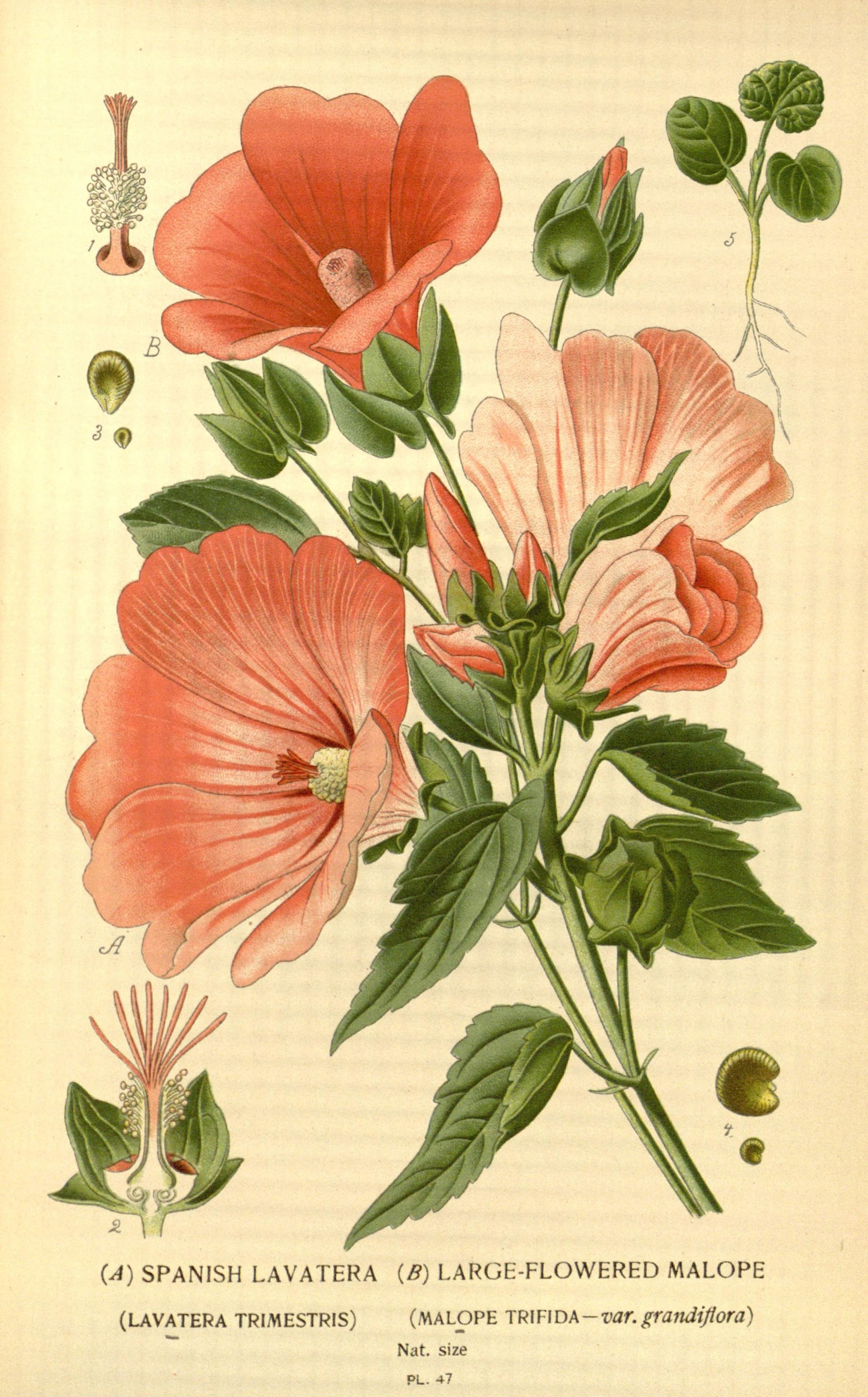 (A) SPANISH LAVATERA (B) LARGE-FLOWERED MALOPE (LAVATERA TRIMESTRIS) (MALOPE TRIFIDA- Wf. gratldijtora)